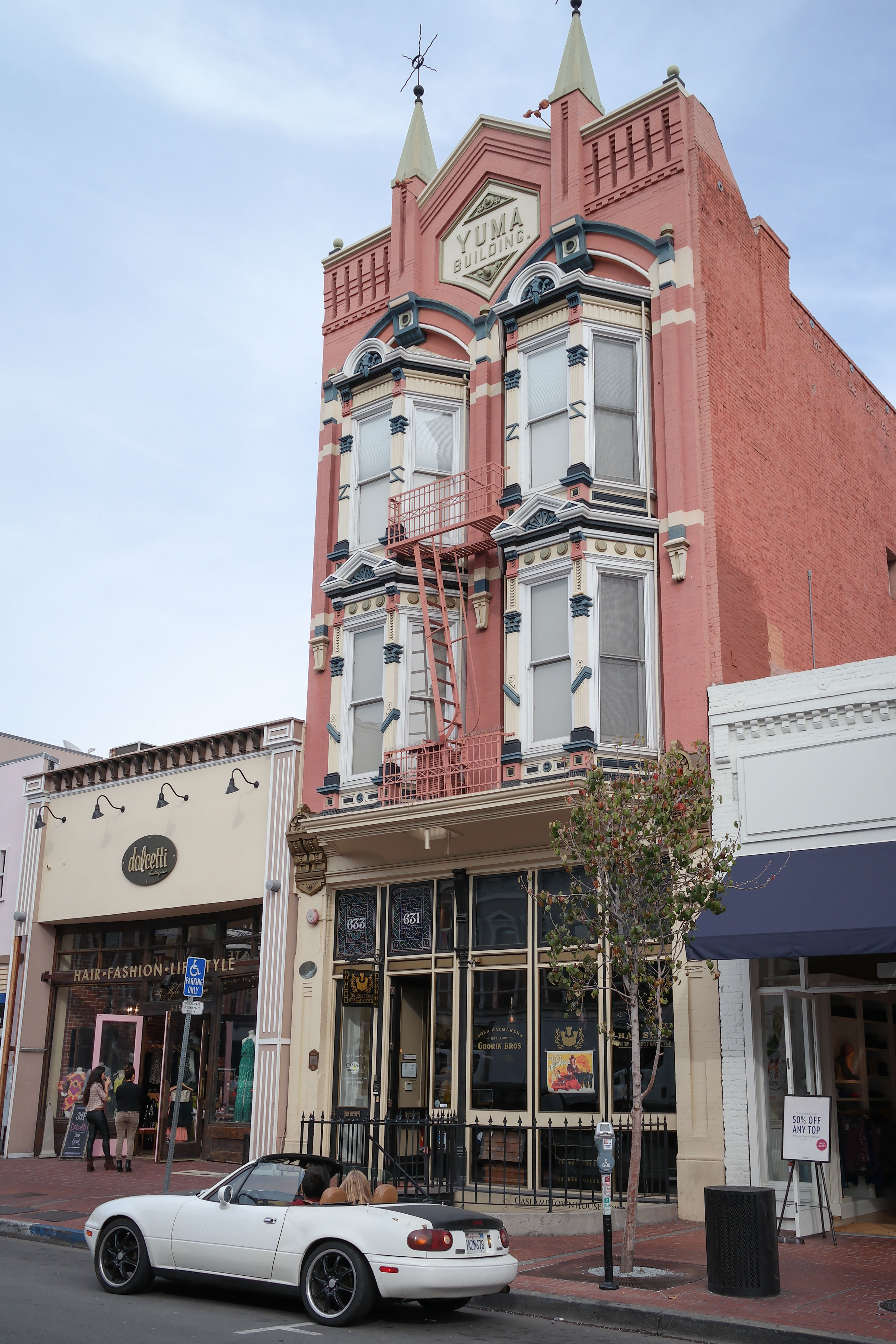 Historic Building Survey plaque: "51 The Yuma Building, 1882. This building was one of downtown's first brick structures, and was owned by Captain Wilcox who arrived in 1849 at the helm of the U.S. Invincible. The ship brought the engineering crew that attempted to turn the San Diego River into False Bay, now known as Mission Bay. The building is called the Yuma because of Wilcox's business connections in the Arizona town. Later used as a hotel, this structure has the distinction of being the first to be closed during the clean-up of the red-light district."